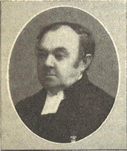 Lars Johan Wahlbäck (1840-?), Swedish clergyman.